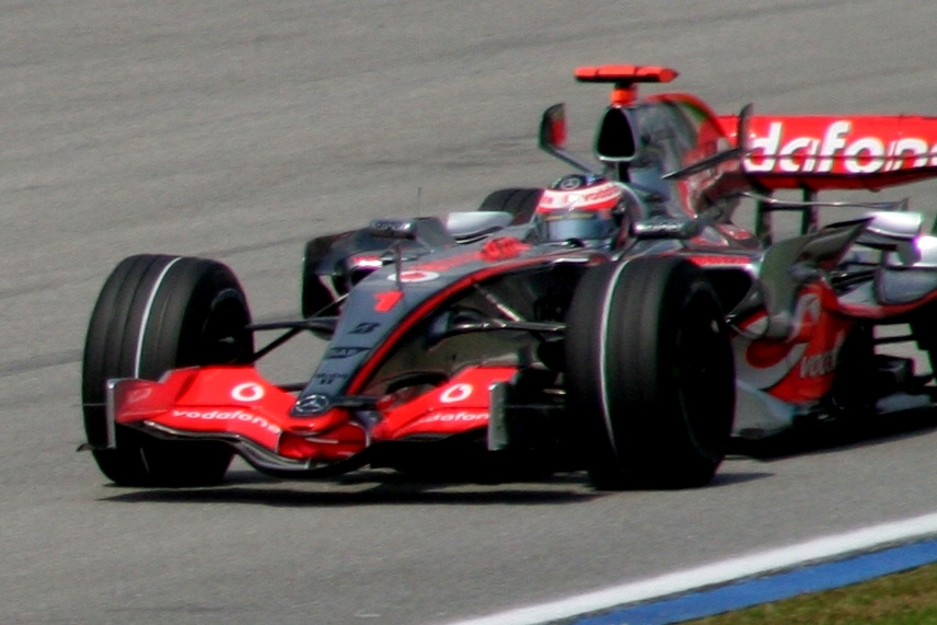 Fernando Alonso driving for McLaren at the 2007 Malaysian Grand Prix.